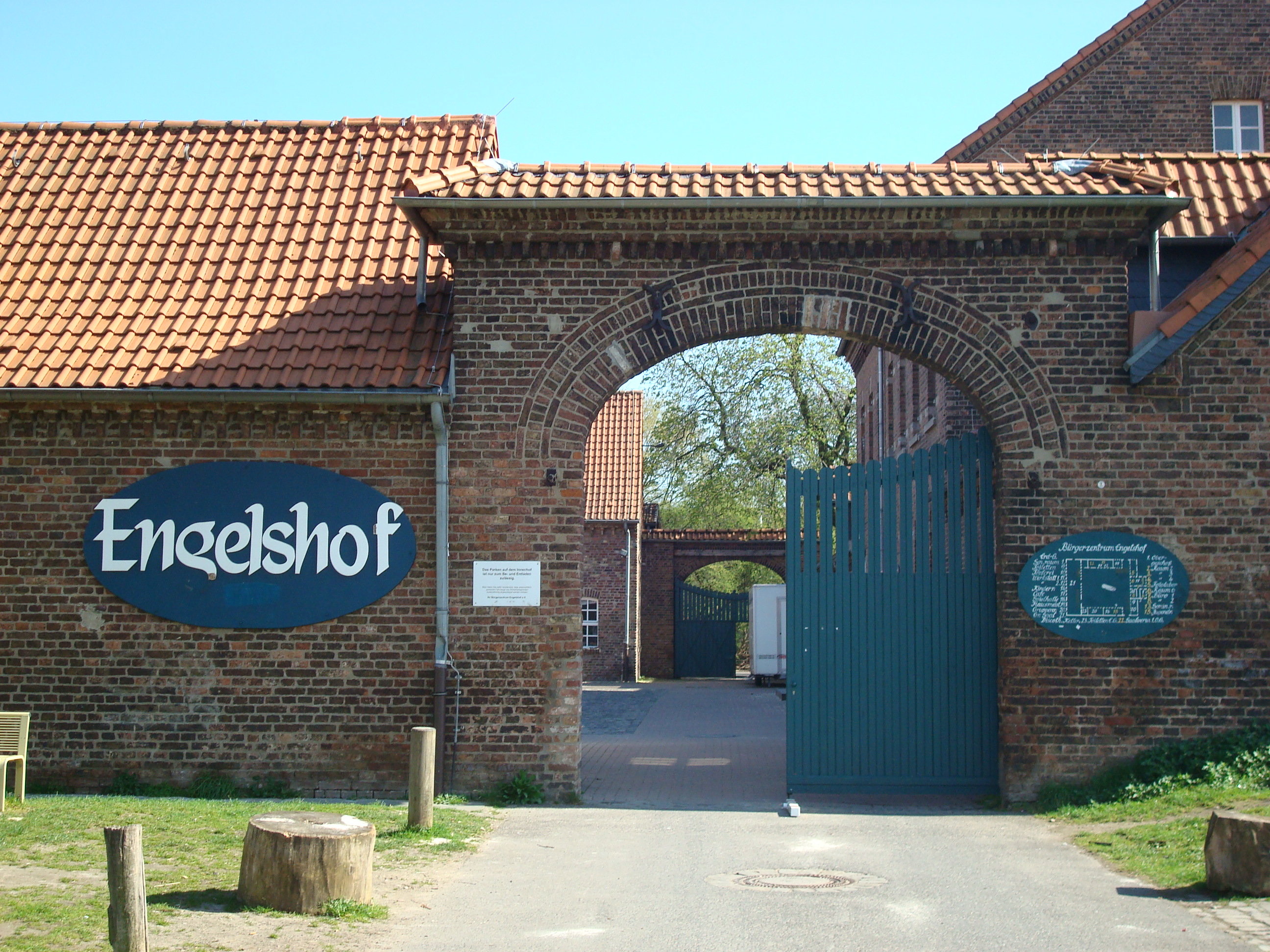 Estate Engelshof in Cologne, Germany